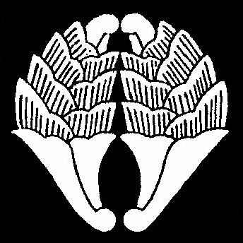 Crest of Nabeshima (Saga)